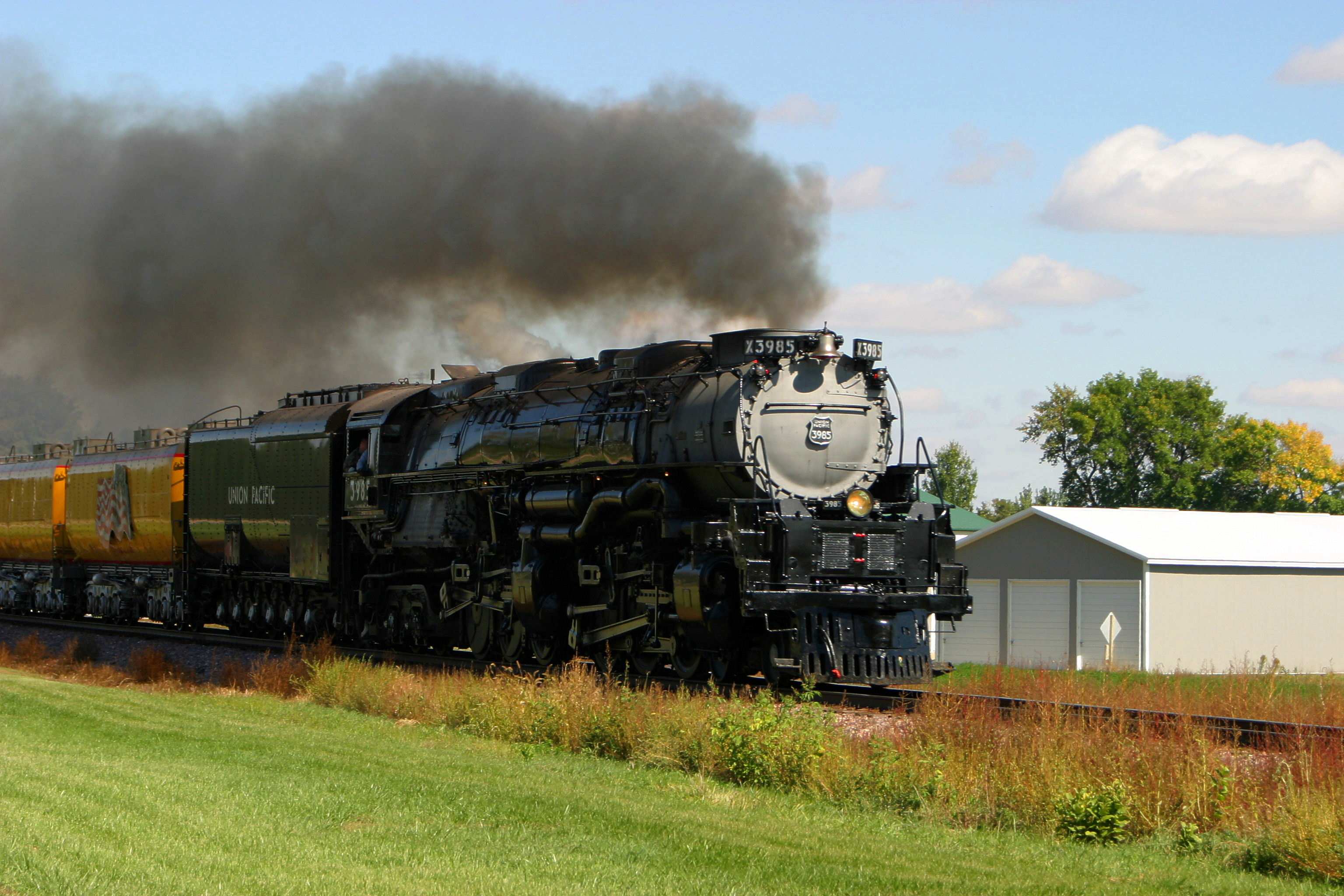 Challenger 3985 steams past our front yard in Alton, IA